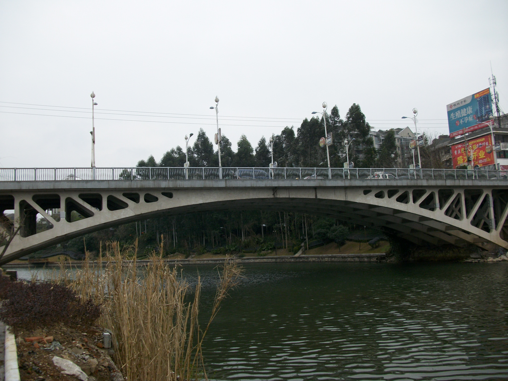 Taohua River Bridge, Guilin.